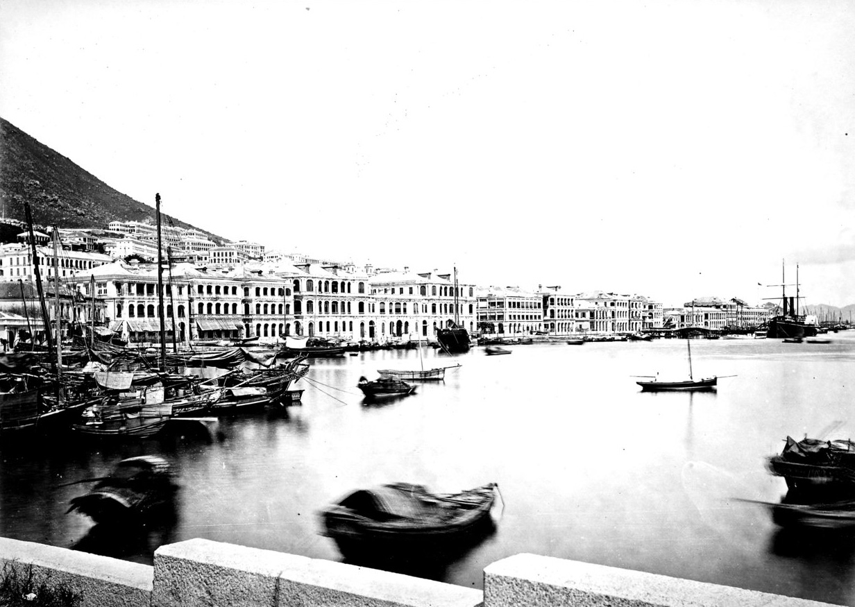 photo from Album of Hongkong Canton Macao Amoy Foochow